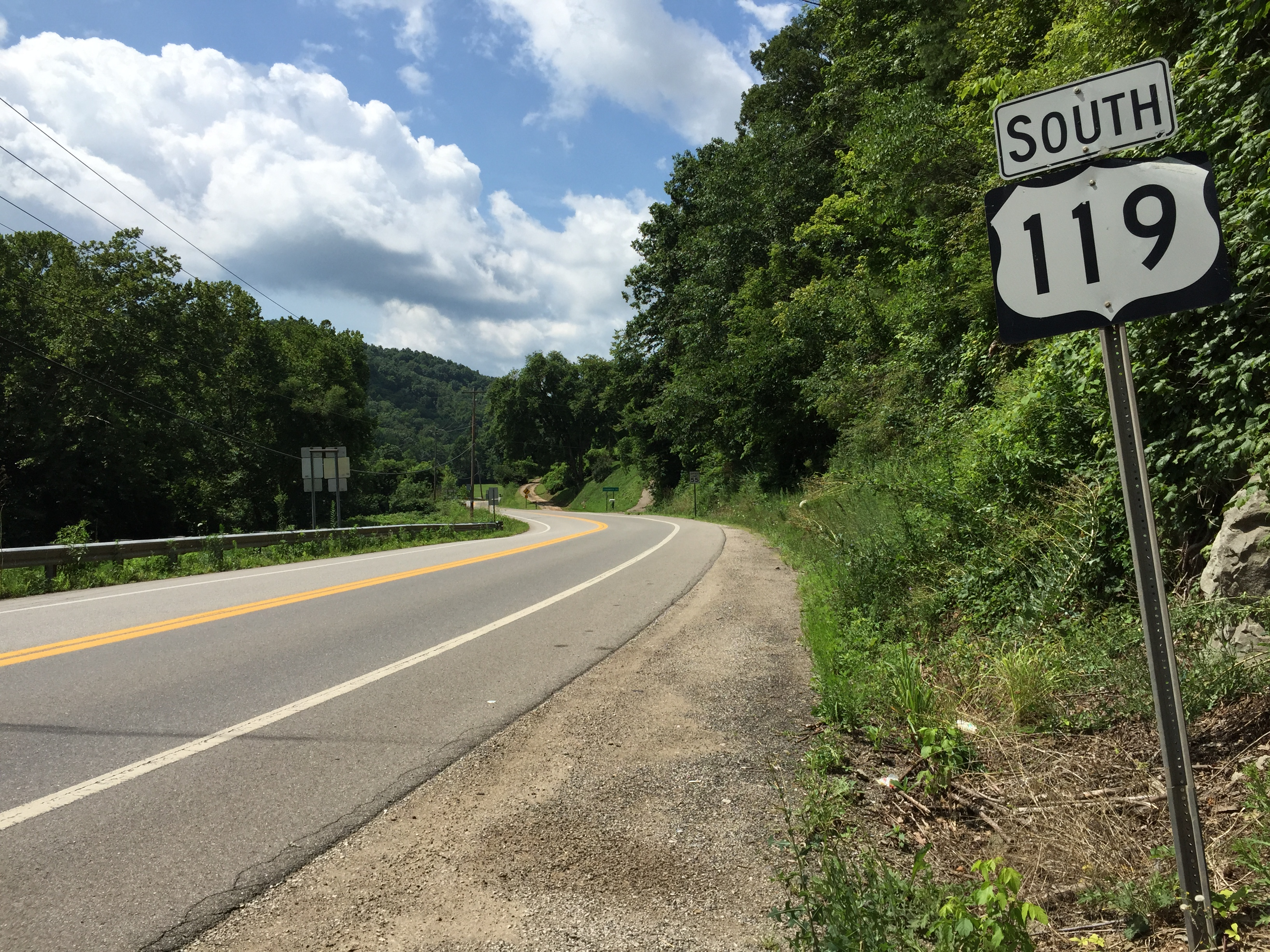 View south along U.S. Route 119 (Charleston Road) at West Virginia State Route 36 (Clay Road) just south of Spencer in Roane County, West Virginia